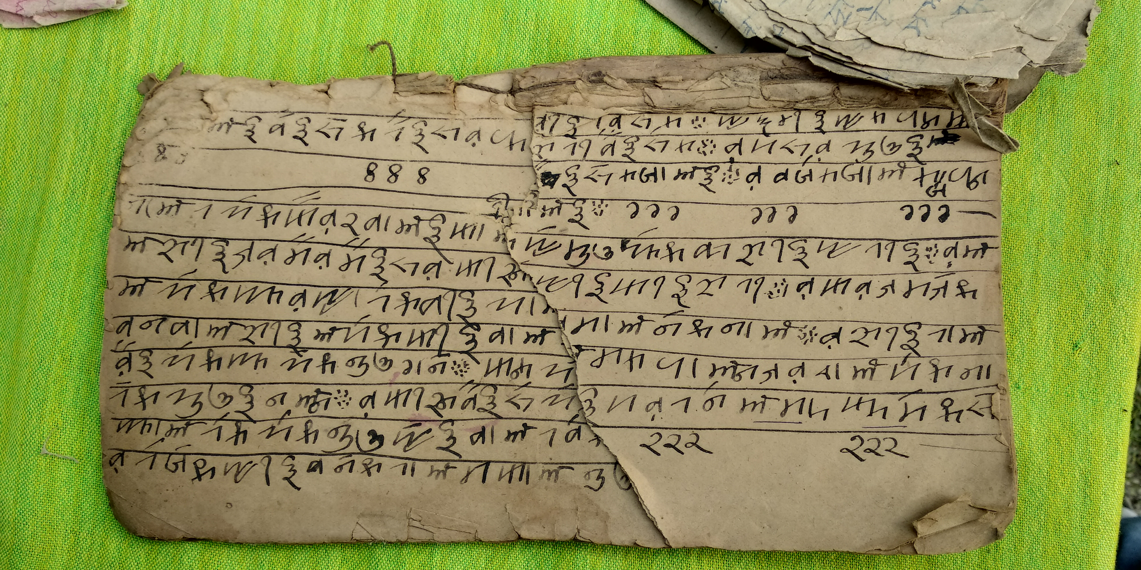 It is a photo of the script of Barman Thar.